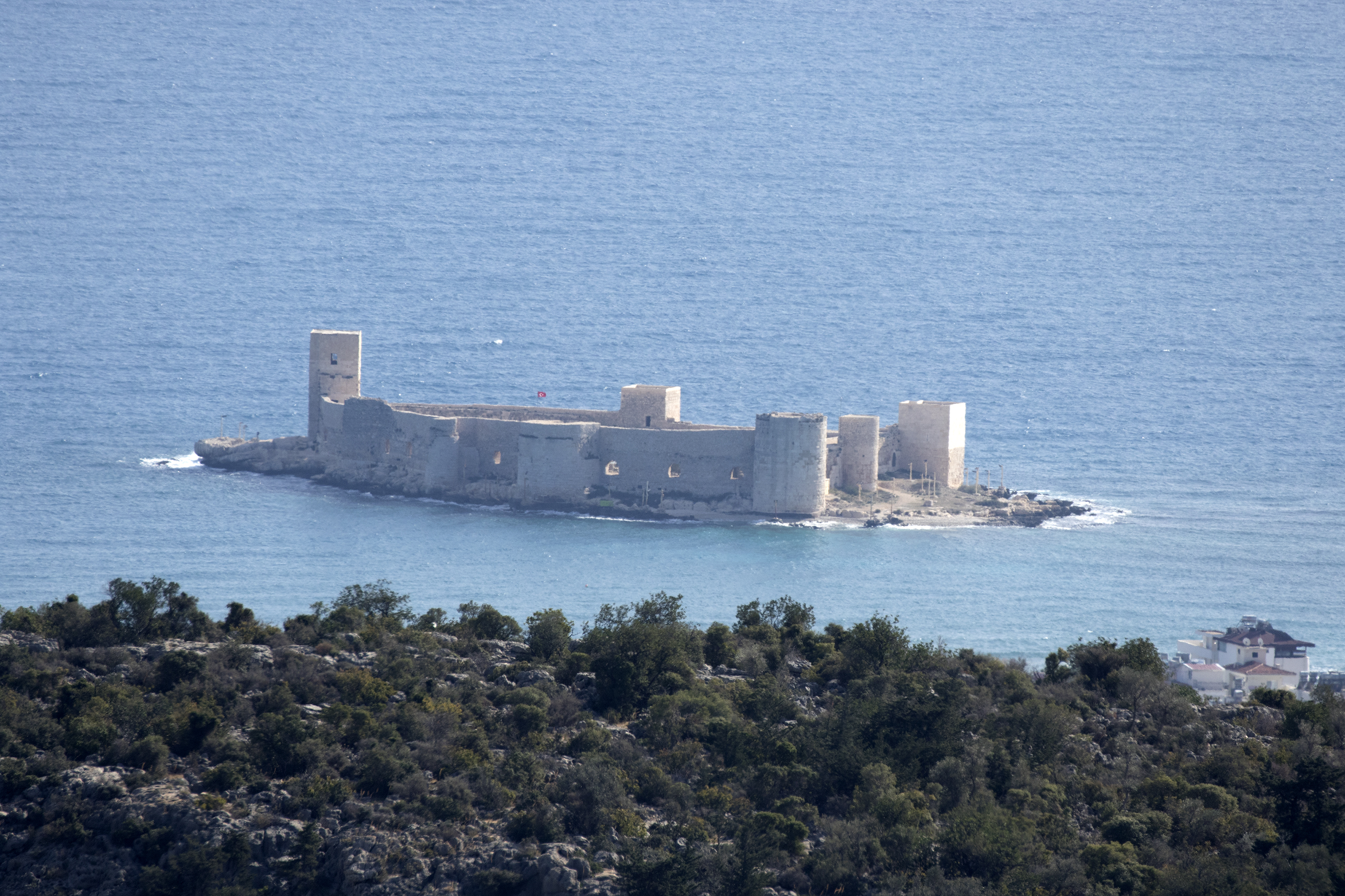 From Adamkayalar, a northwestern view of Kızkalesi (Korykos). Kızkalesi, Erdemli, Mersin - Turkey.